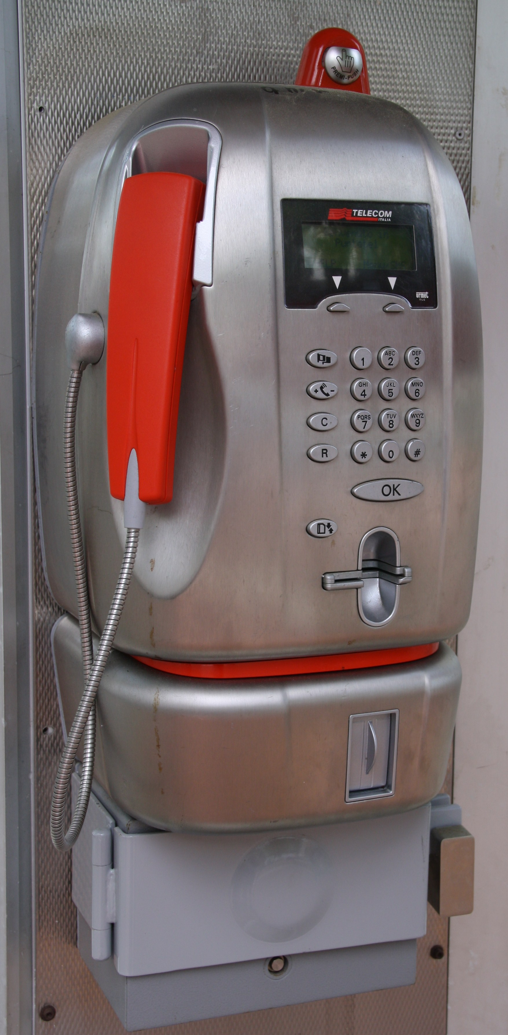 Italy, Montecatini Terme, Piazza VII Settembre. Telecom Italia payphone Digito.